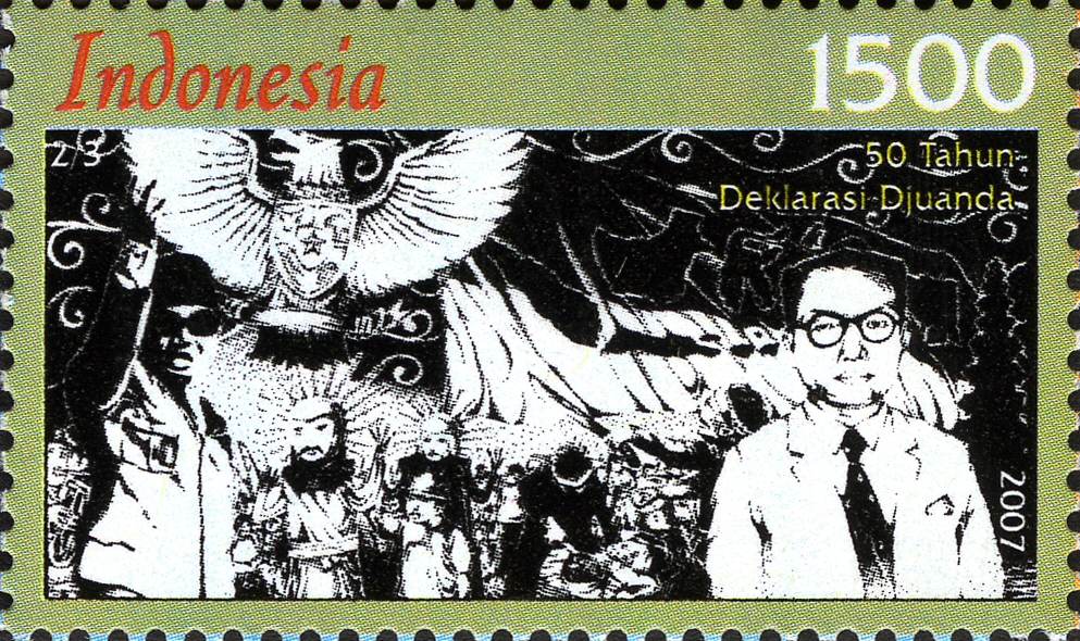 Stamps of Indonesia